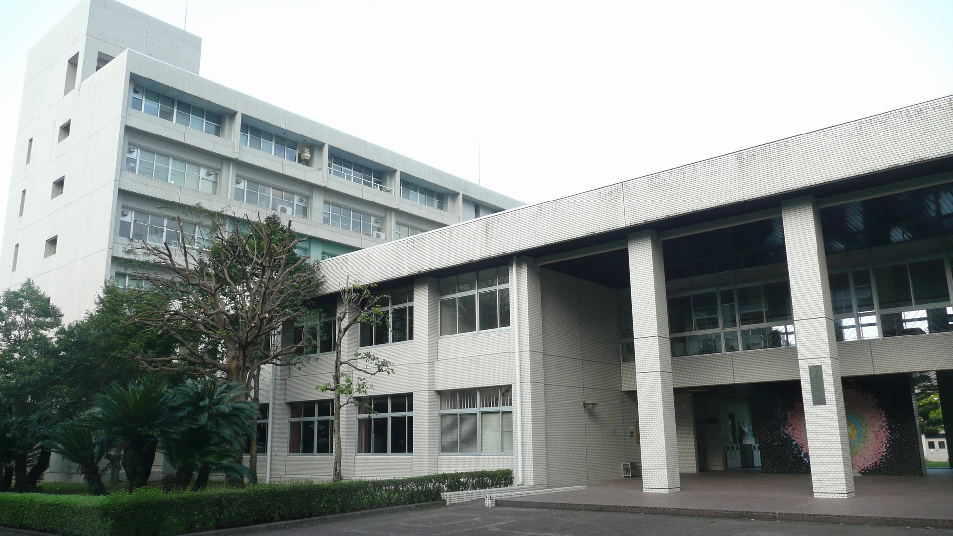 University of Miyazaki - Faculty of Engineering.